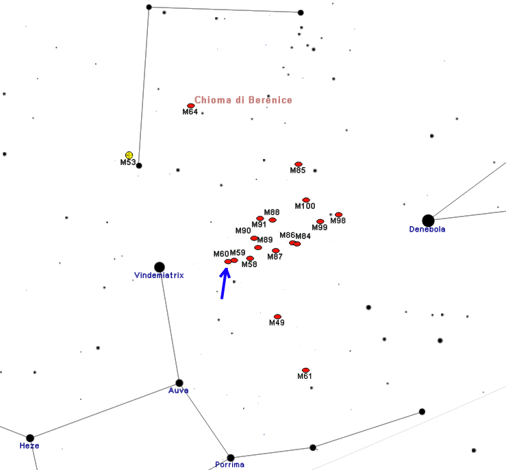 Map of M60